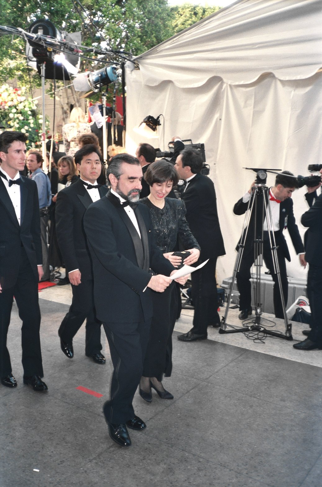 1990 Academy Awards NOTE: Permission granted to copy, publish, broadcast or post any of my photos, but please credit "photo by Alan Light" if you can. Thanks. Scanned from the original 35MM film negative.